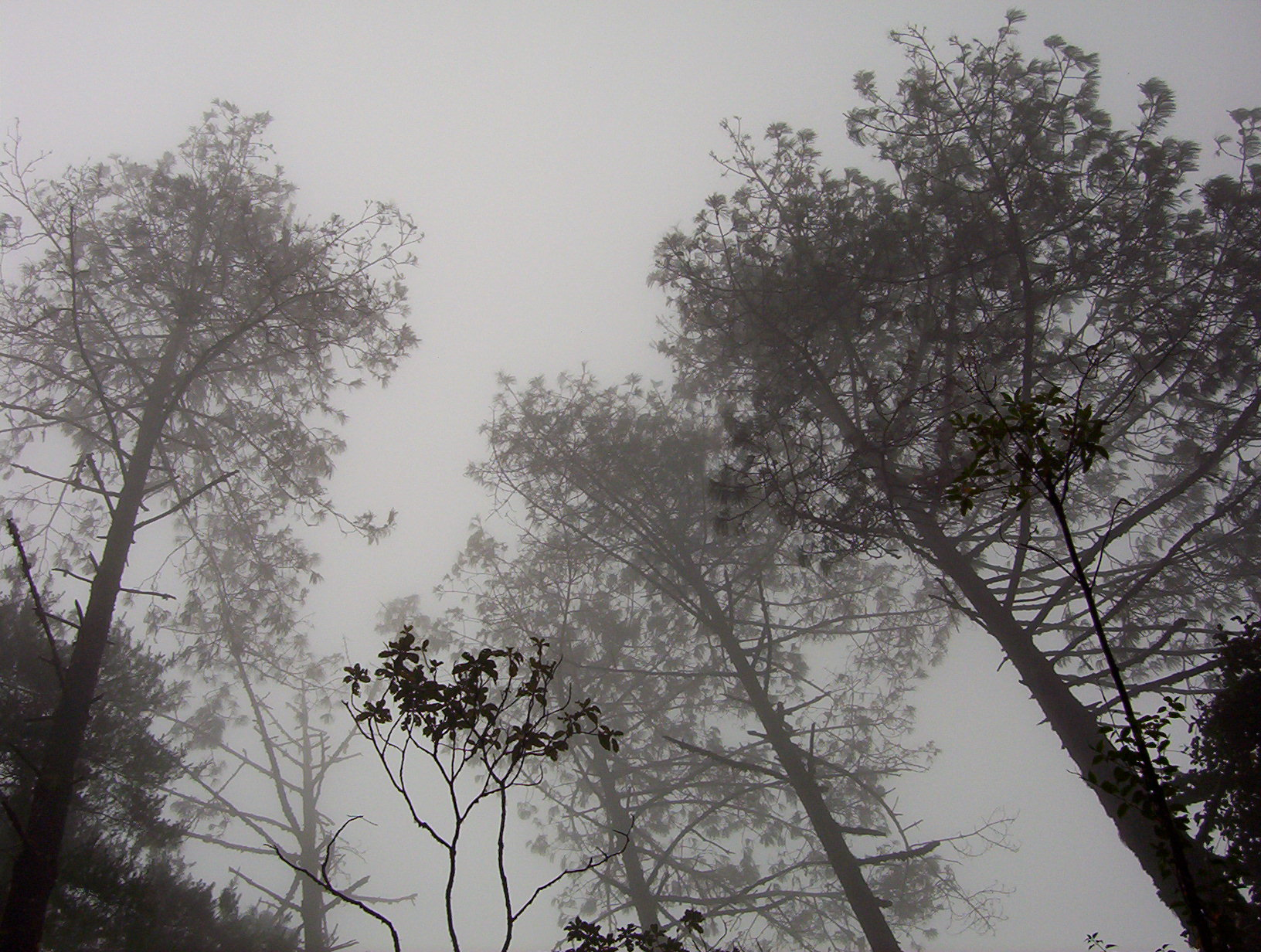 This photography was taken in Ayotzintepec mountain range, Oaxaca, Mexico